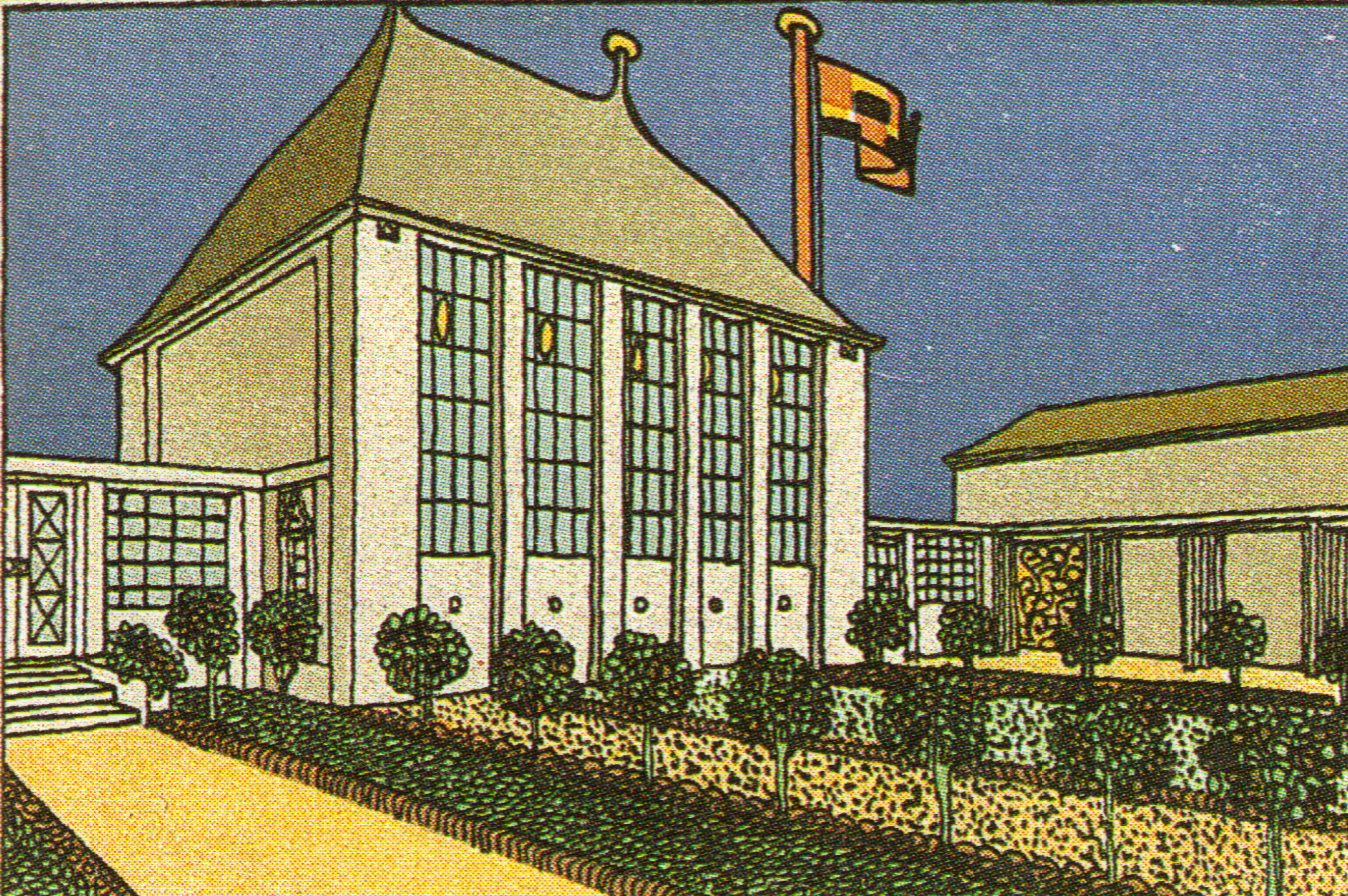 Pavillon of Kunstschau Wien 1908 (site of present Konzerthaus building)